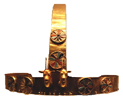 A rare diadem or crown from the tomb of pharaoh Thutmose III's 3 foreign (Syrian) wives found at Wady Gabbanat el-Qurud in Upper Egypt. Their tomb here was originally looted in 1916 by local villagers but their treasures were later reassembled and is now located in the Metropolitan Museum of New York.